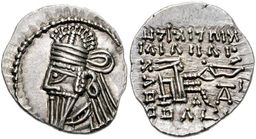 Coin of Osroes II, a Parthian ruler.